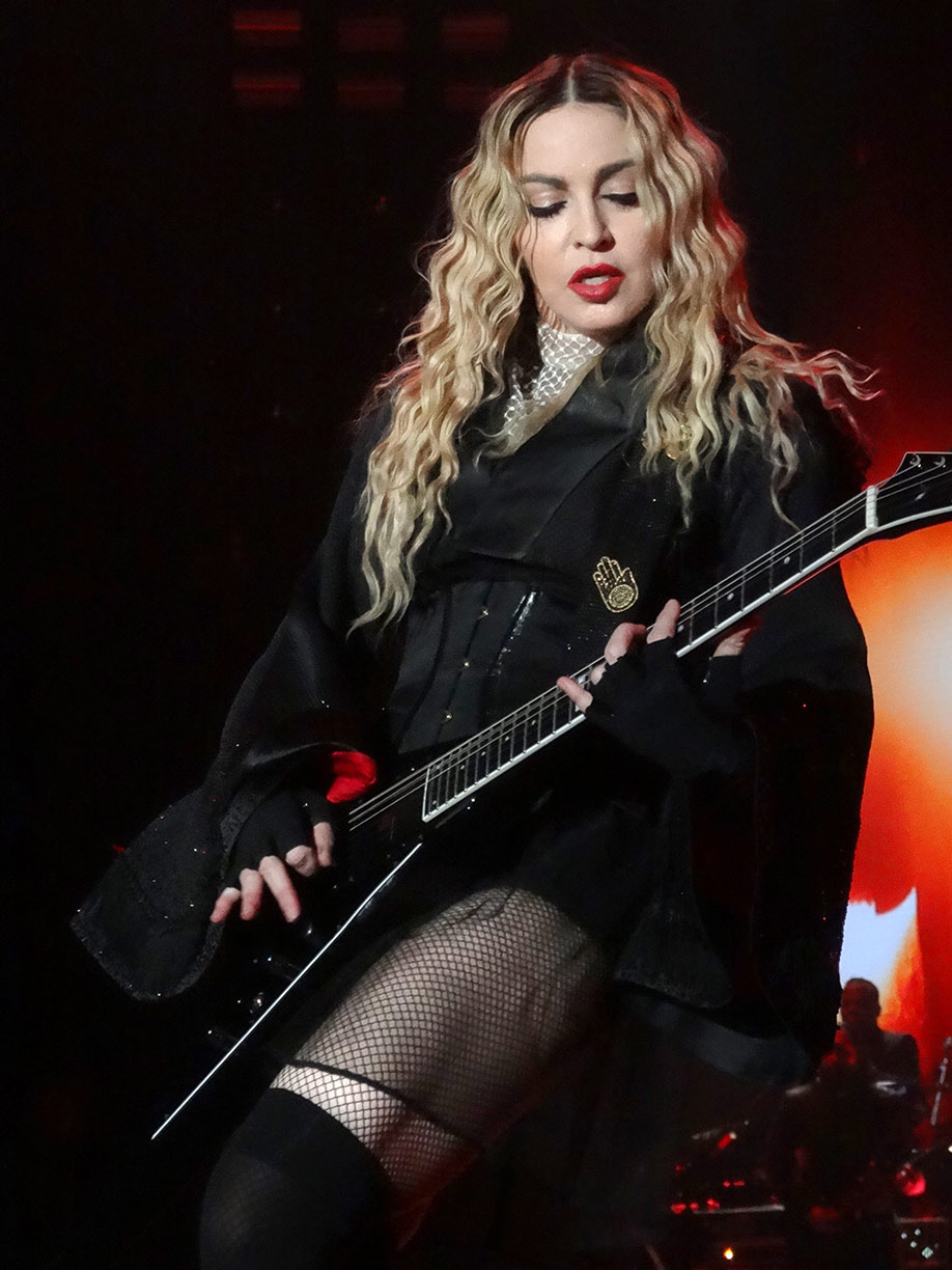 Madonna performing "Burning Up" during her Rebel Heart Tour concert in Antwerp, Belgium on November 28, 2015.